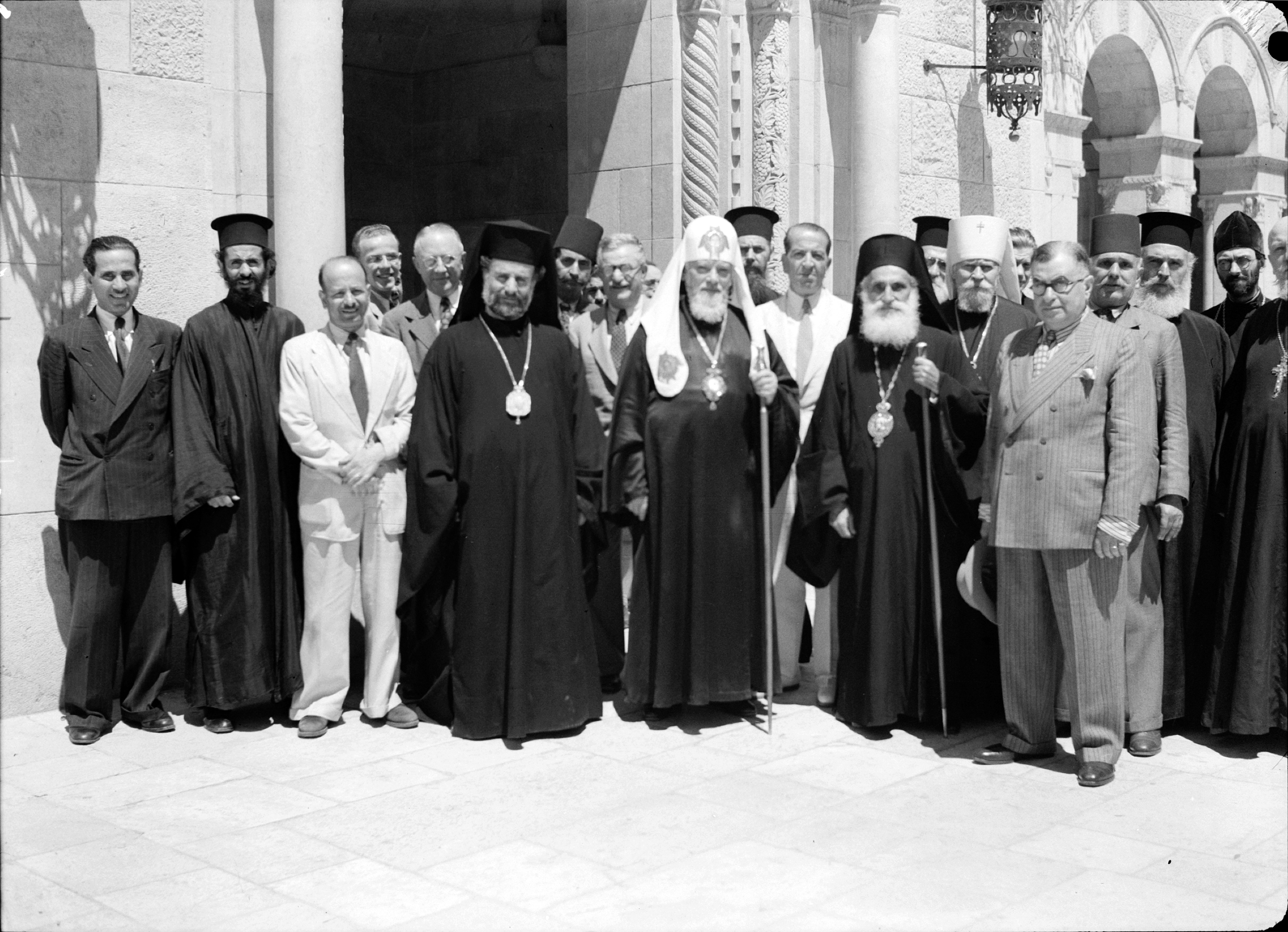 Patriarch Alexius I of Moscow at Y.M.C.A., 1945, Jerusalem, Israel